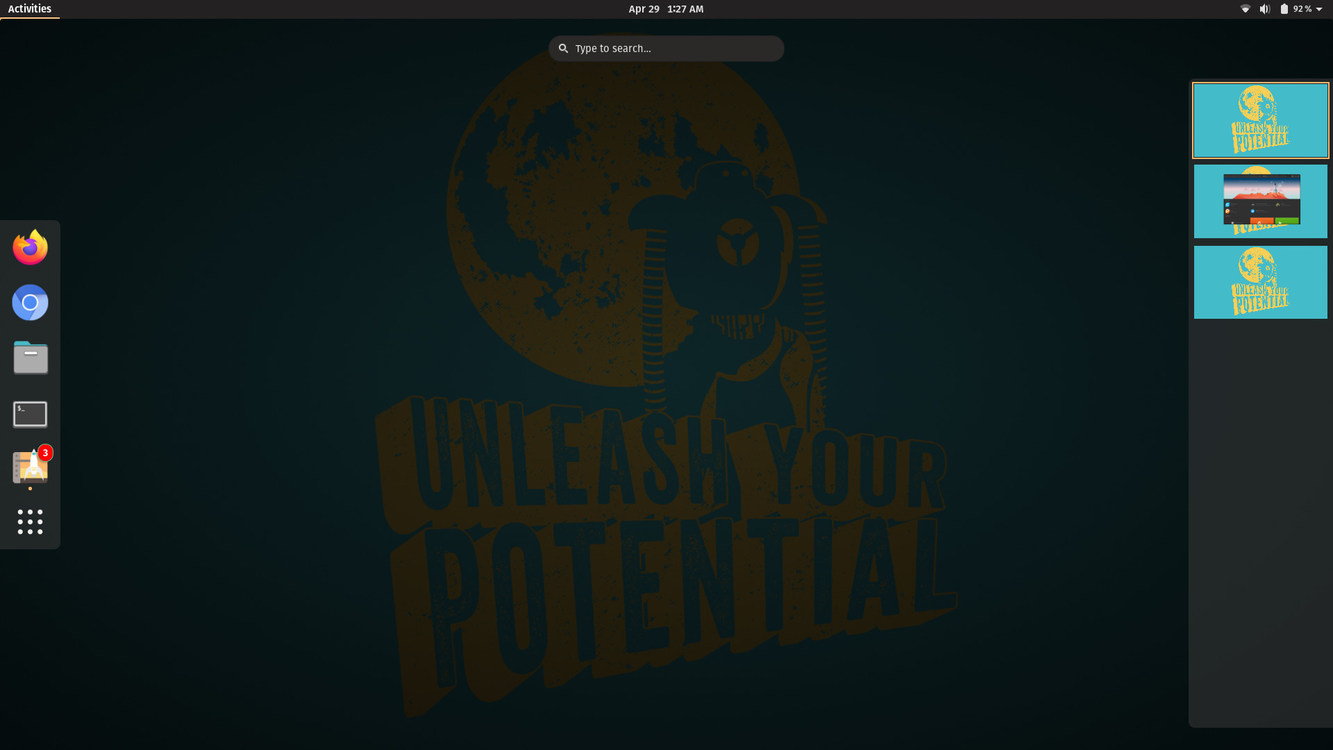 Screenshot of a Computer running Pop!_OS